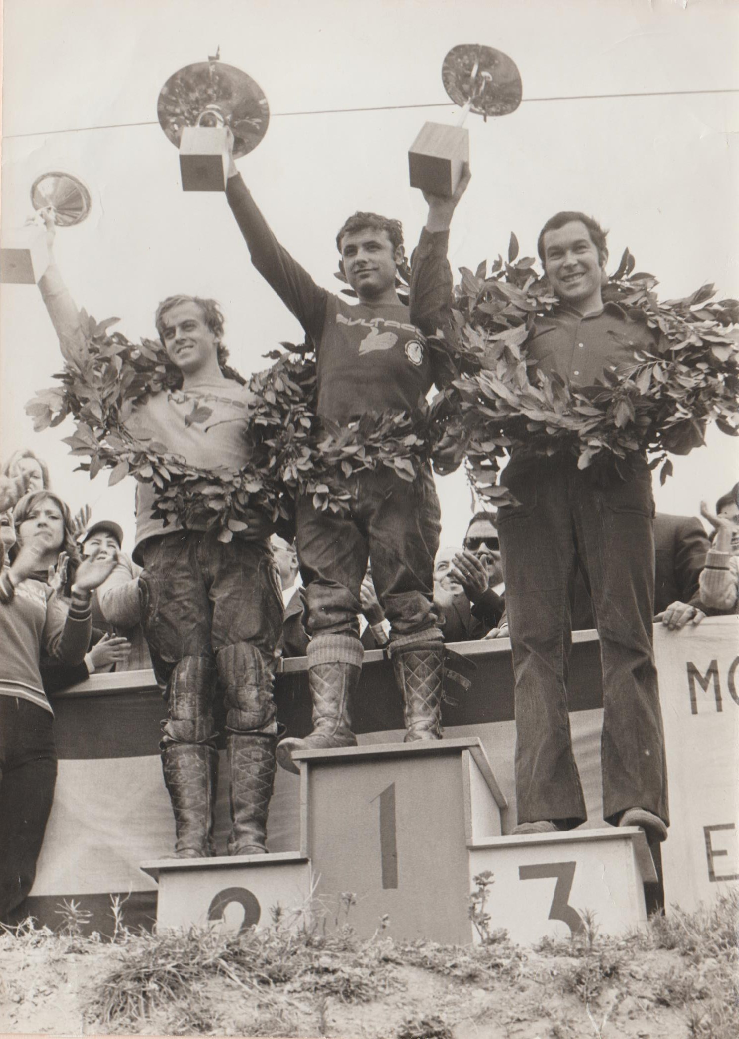 Podium of the 1972 Esplugues Motocross, at Ciutat Diagonal. 1st-Domingo Gris, 2nd-Ignasi Bultó, 3rd-Jesús Saiz